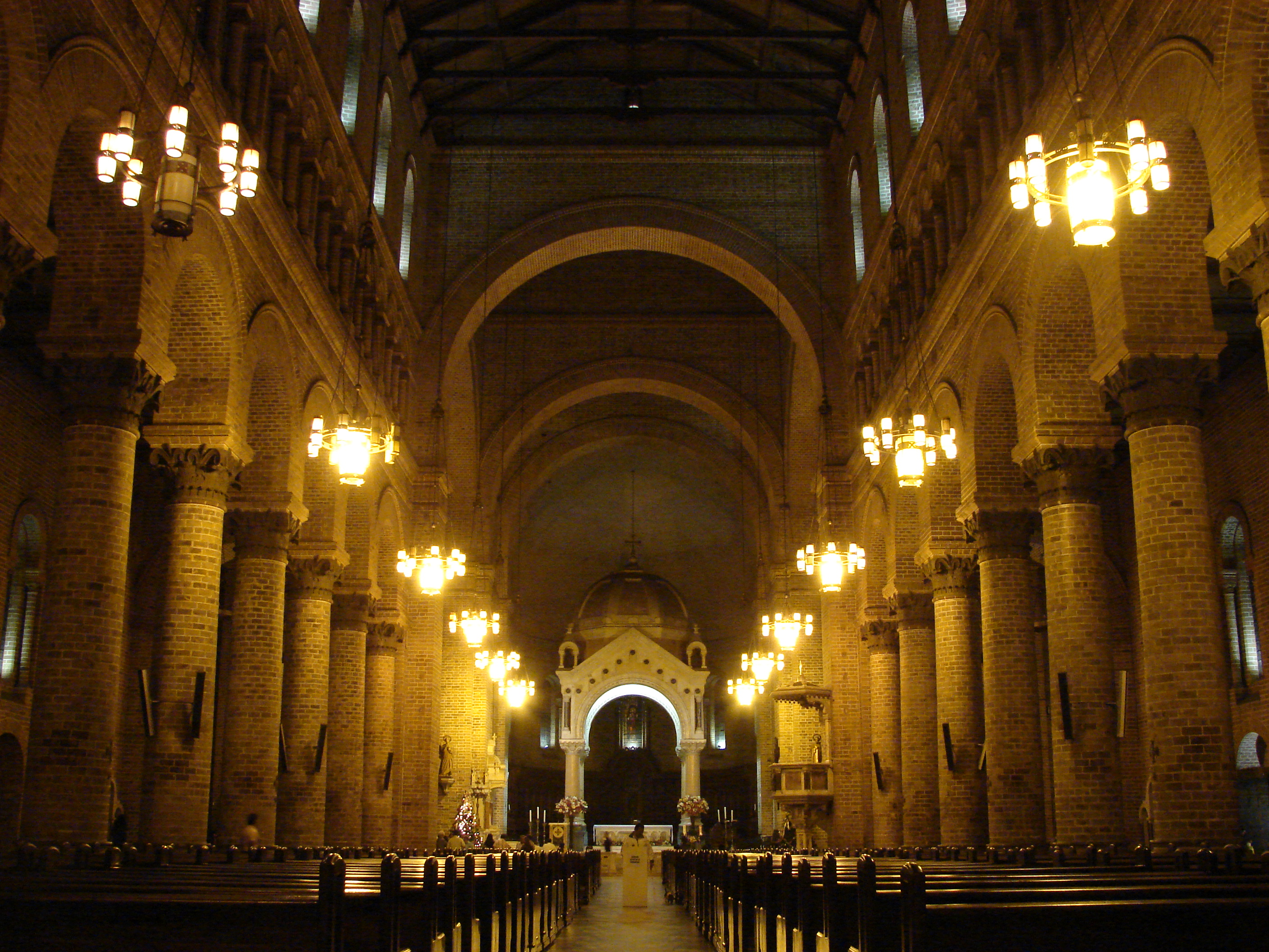 Interior Catedral Metropolitana de Medellín